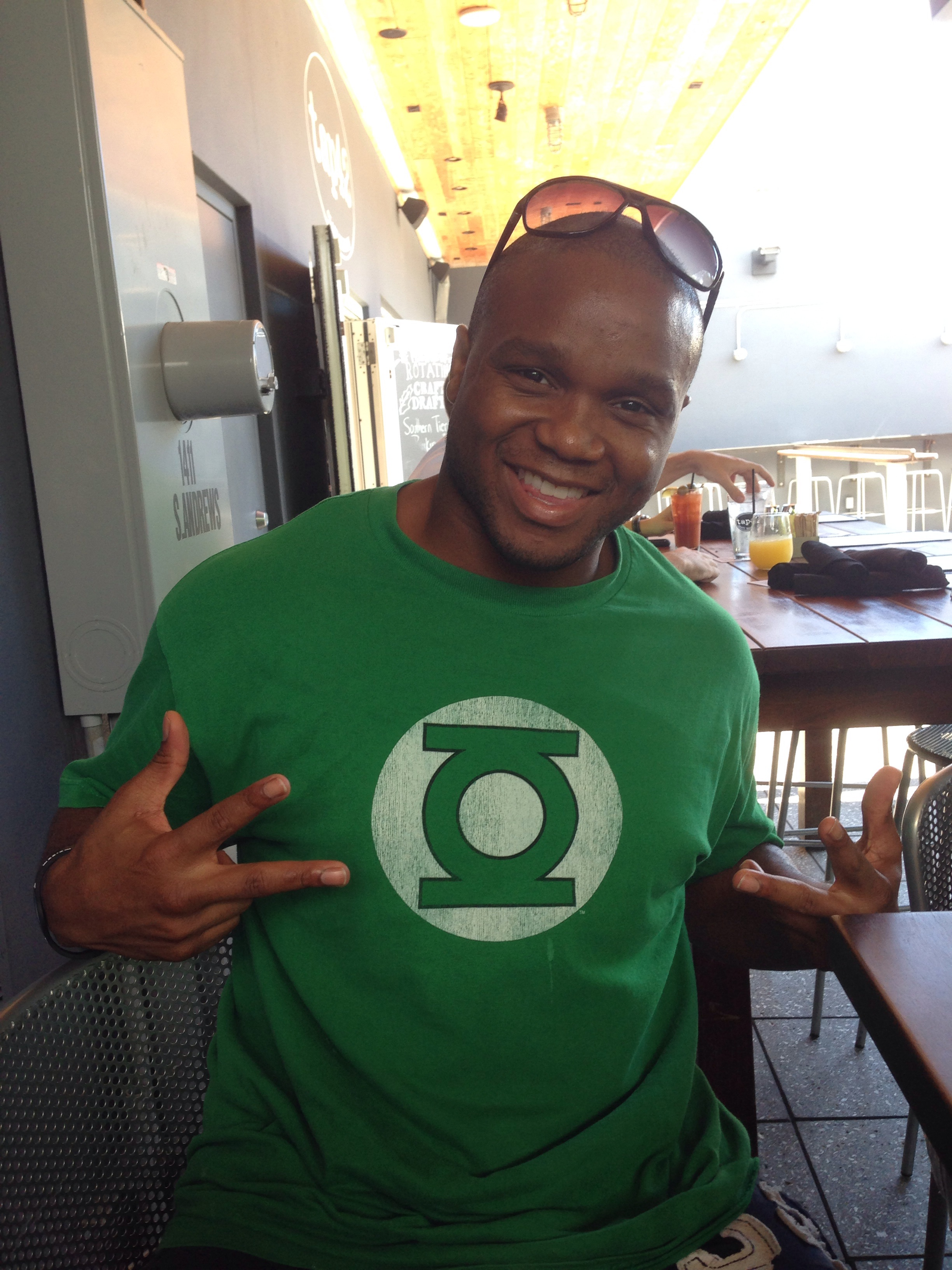 Marcus Brimage enjoying his first Brunch in Fort Lauderdale, FL.